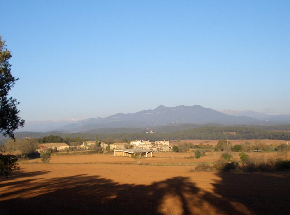 Sight from the south-east of the nucleus of the neighbourhood of Les Anglades. November 2004.